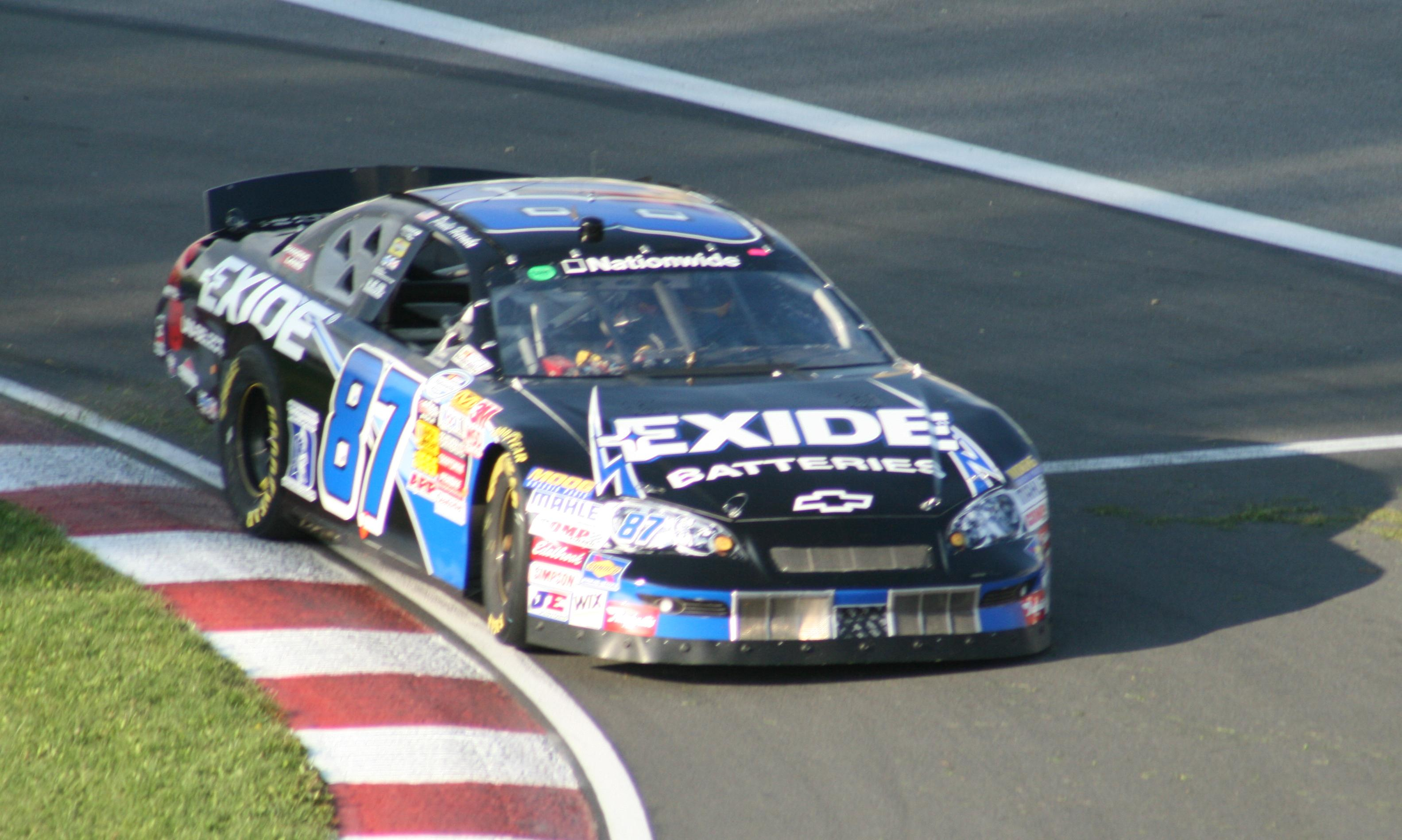 Paulie Harraka in the qualification for the 2010 NAPA Auto Parts 200 at the Circuit Gilles Villeneuve in Montreal.